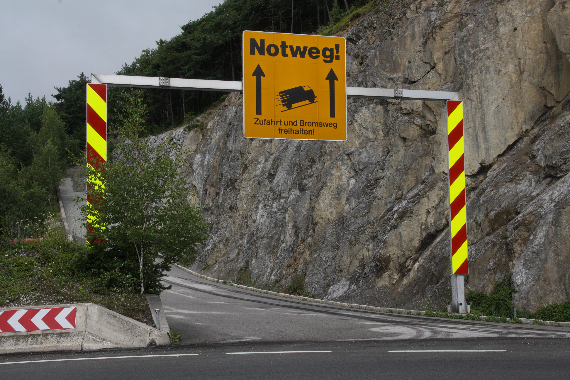 runaway truck ramp at a hairpin bend of the road "Zirlerbergstraße" with slopes up to 16% in Tyrol, Austria